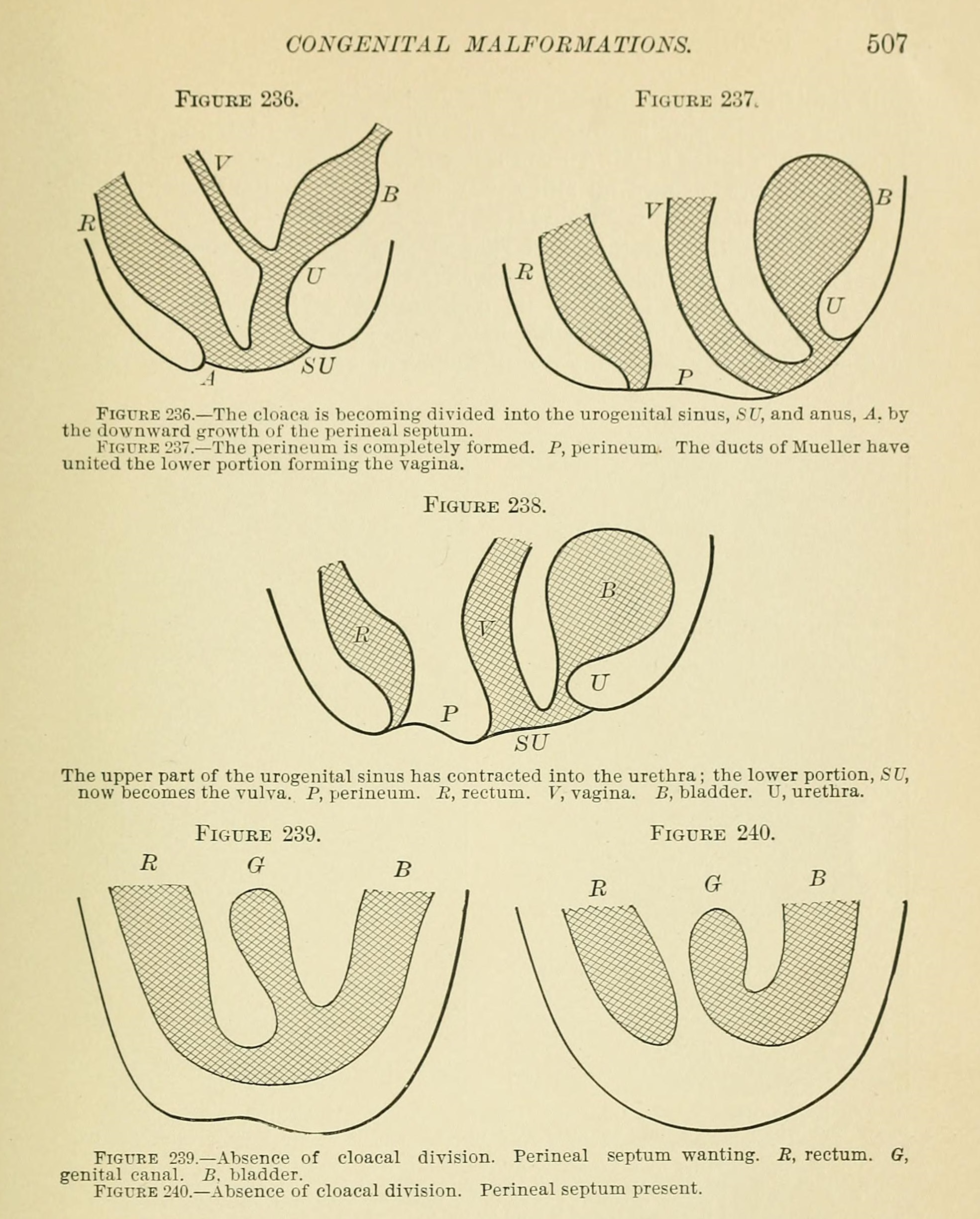 Title: The Principles and practice of gynecology : for students and practitioners Year: 1904 (1900s) Authors: Dudley, E. C. (Emilius Clark), 1850-1928 Subjects: Gynecology Publisher: Philadelphia : Lea Brothers & Co. Text Appearing Before Image: The upper part of the urogenital sinus has contracted into the urethra; the lower portion, SU,now becomes the vulva. P, perineum. H, rectum. V, vagina. B, bladder. U, urethra. Figure 239.G Text Appearing After Image: FiorRE 239.—Absence of cloaeal division. Perineal septum wanting. R, rectum. G,genital canal. B. bladder. Figure 240.—Absence of cloaeal division. Perineal septum present. genital sinus. This sinus in its upper part becomes the urethra, andin its lower part the vulva. The anomalies of the vulva and anus are : Atresia. Persistent cloaca. Hypospadias. Epispadias. Infantile vulva.Atresia of the Urethra, Vagina, and Anus.—The cloaeal divi-sion by which the urethra, vasrina, and anus are opened and therebyprolonged to the external surface may fail to take place. This failure 508 TUMORS, TUBAL PREGNANCY, MALFORMATIONS. will result in complete atresia of the vagina, urethra, and anus. Theperineal septum may be absent, as shown in Figure 239, or present,as shown in Figure 240. In the latter case the opening between therectum and the urogenital sinus will be closed. This condition ofcomplete atresia has been observed only in stillborn foetal monstrosi-ties. The bladder, urethra, and vagi